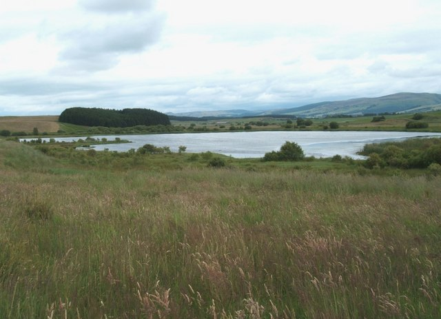 Carsebreck Loch In the nineteenth century, this was the Royal Caledonian Curling Pond. This was taken from Shelforkie Moss as it was known then. Don't know if the locals still call it by that name. It was certainly wet underfoot, the day I was there.